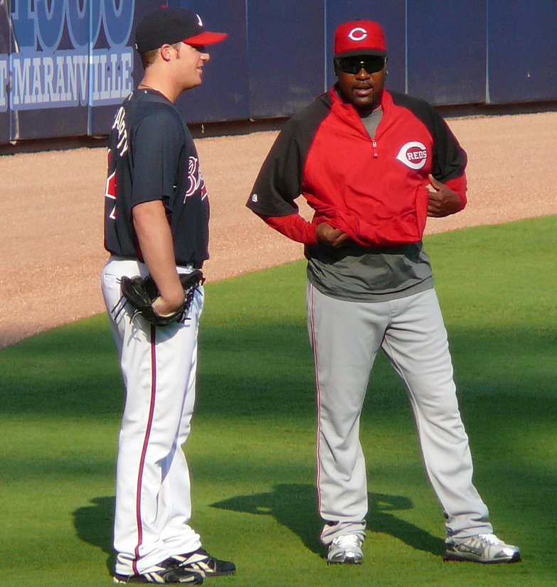 If used somewhere other than Wikipedia, Nelson, by name. 04:13, 20 September 2009 . . Chrisjnelson . . 783×826 (601 KB)